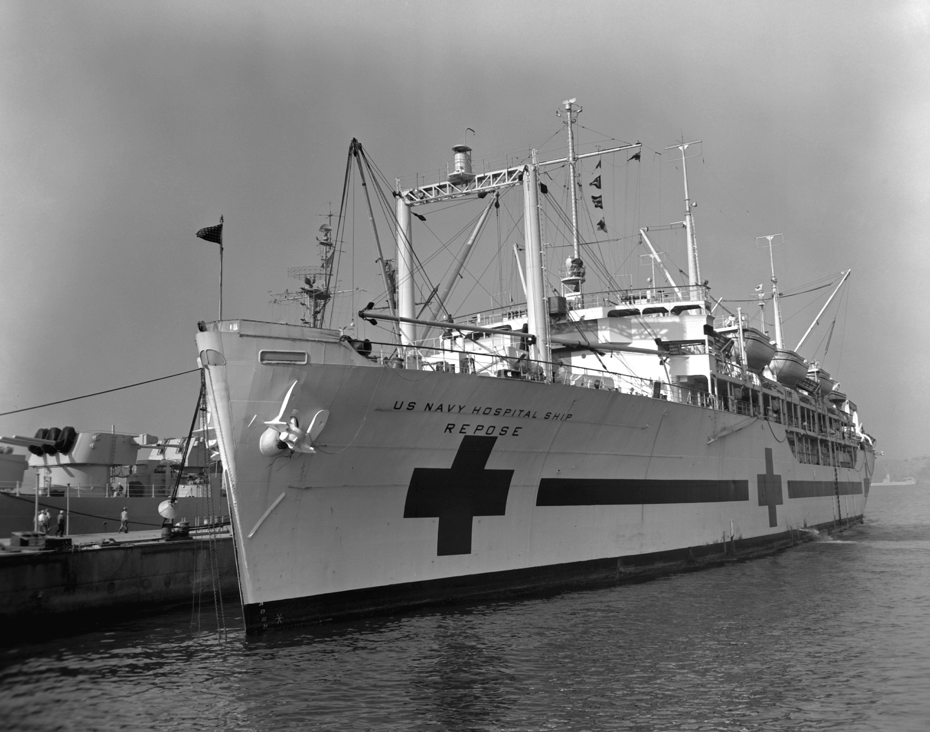 The U.S. Navy hospital ship USS Repose (AH-16) at anchor in Yokosuka harbour, Japan, on 19 January 1952.